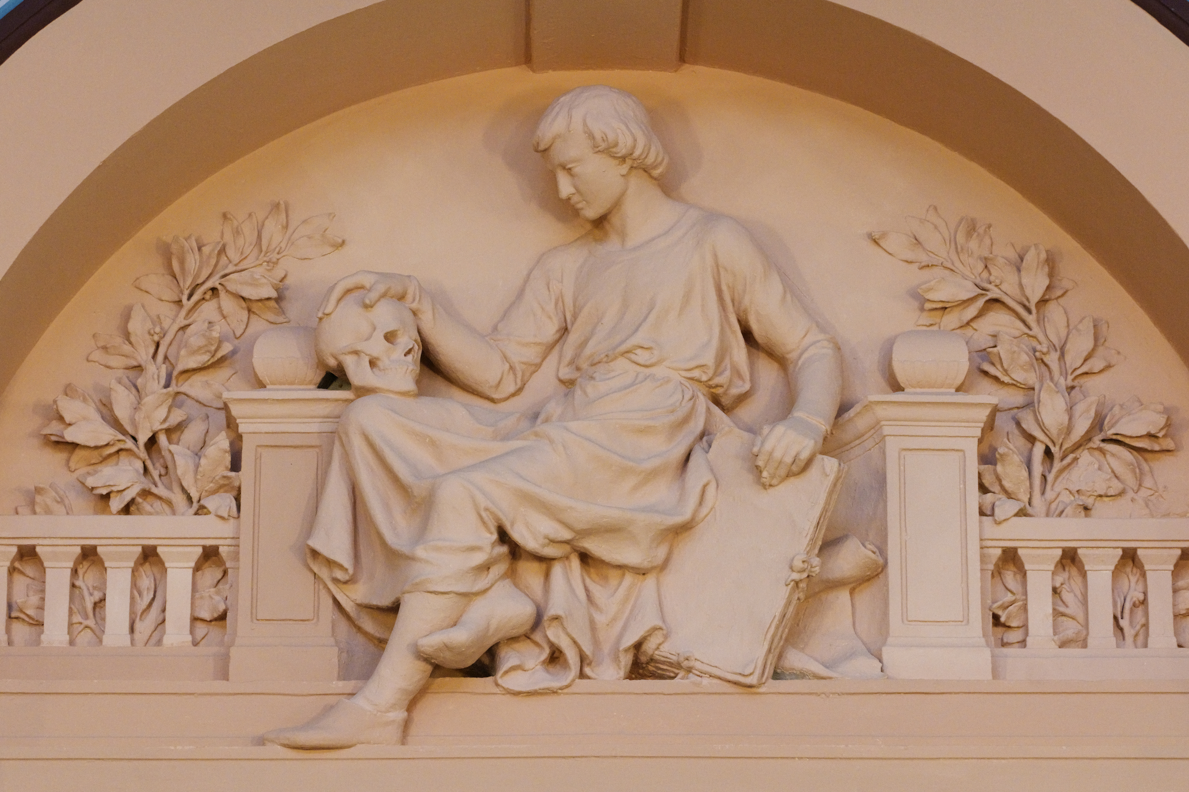 Terracotta relief by Charles Gauthier in the drawing classroom of the Collège Sainte-Barbe, Paris.